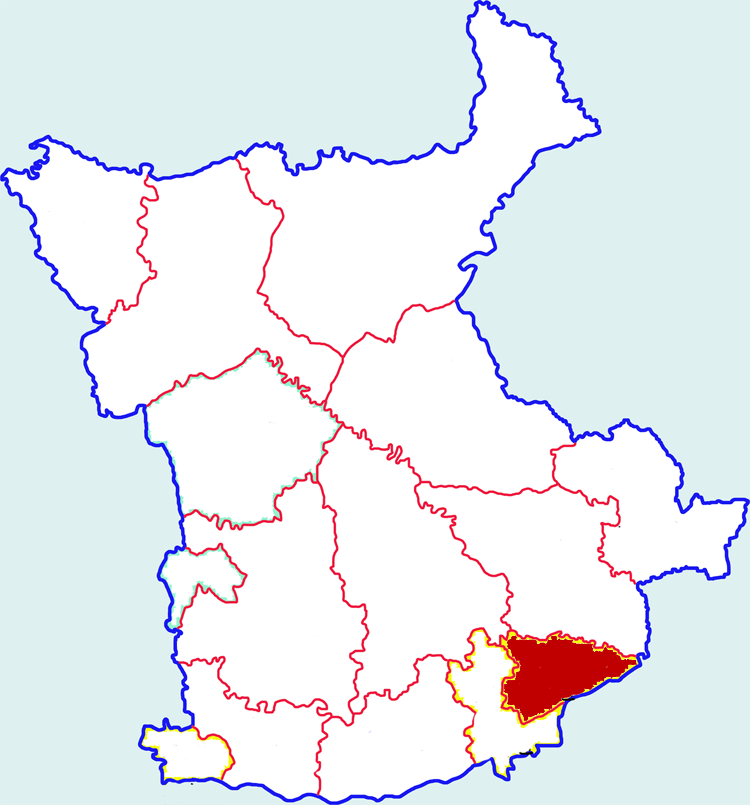 Location of Weicheng district in Xianyang city, China